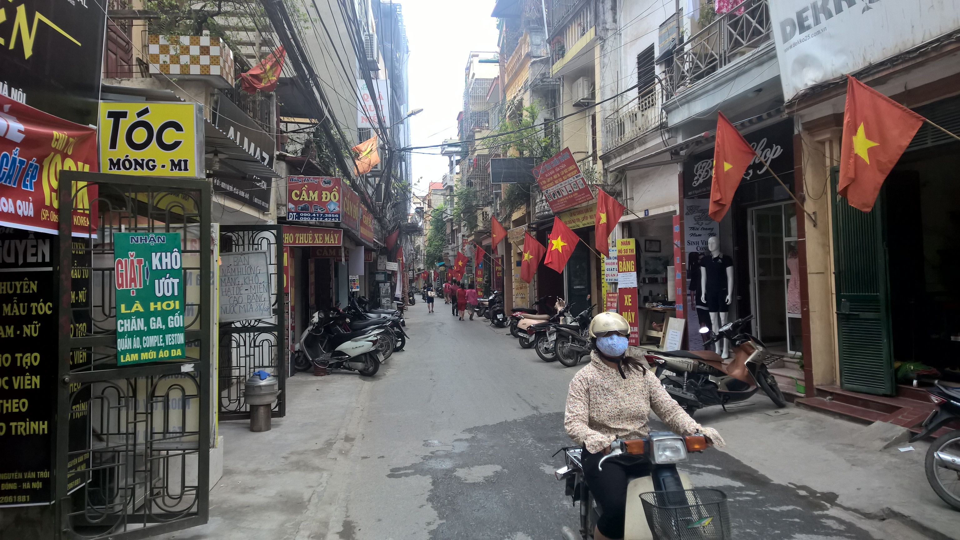 A street in Hà Đông.